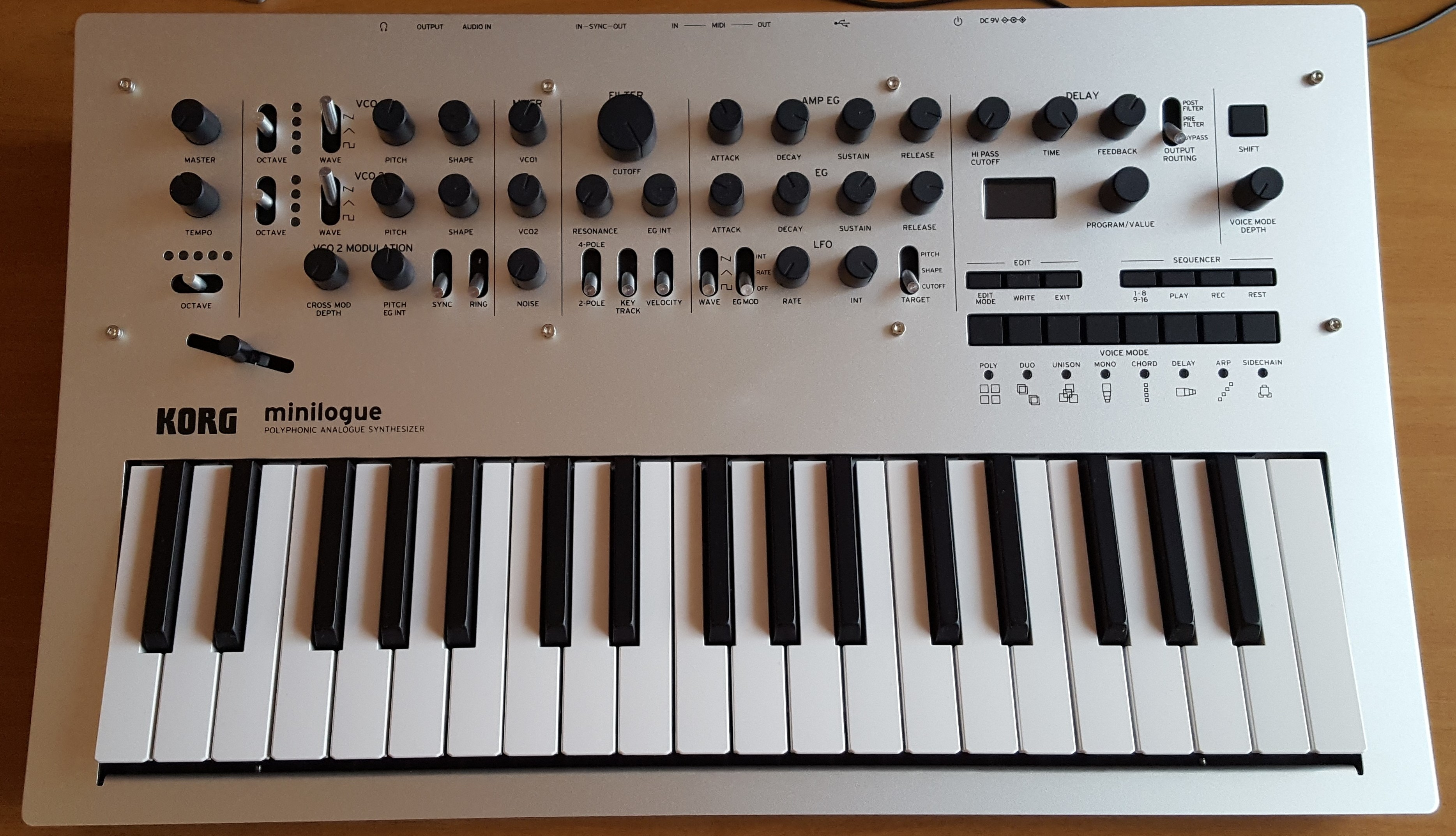 A picture of Korg Minilogue, a 4 voice analog synthesizer.